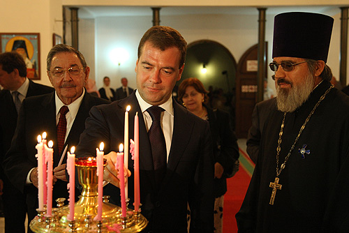 HAVANA. In the Church of the Holy Mother of God.